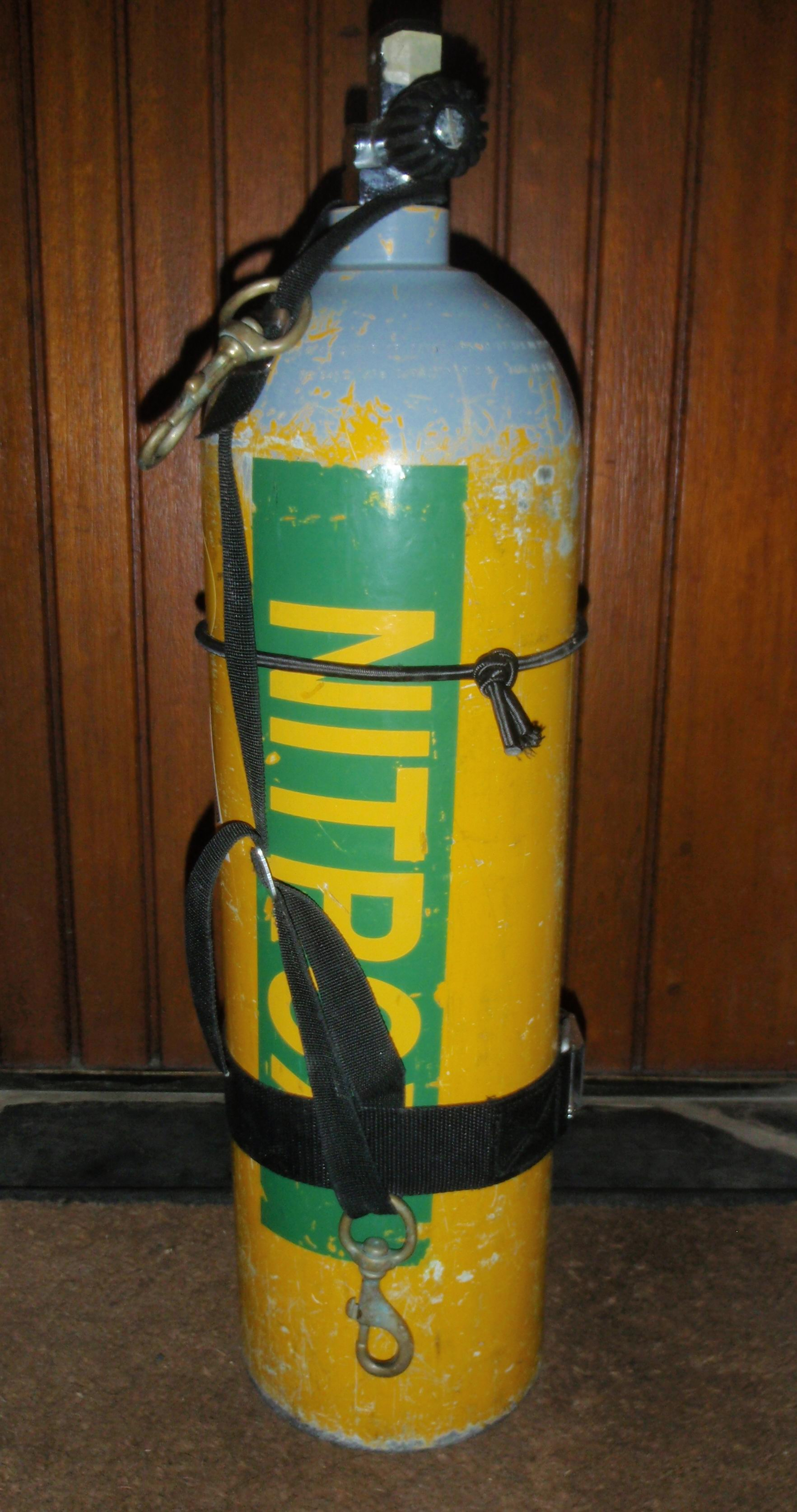 9.2 litre Aluminium cylinder rigged as a sling mount for decompression gas, with a Nitrox label